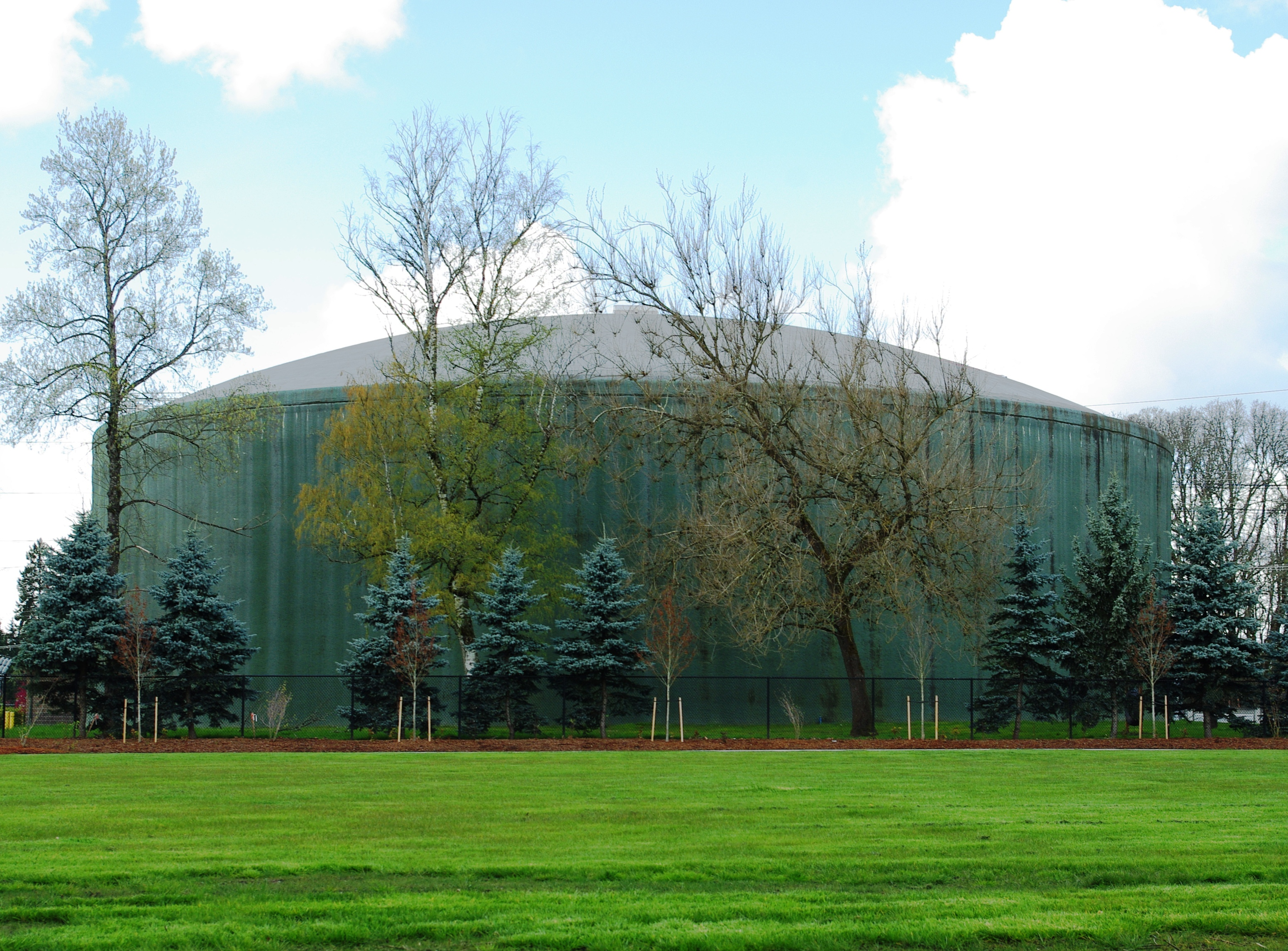 Bicentennial Park in Hillsboro, Oregon with water reservoir in background.